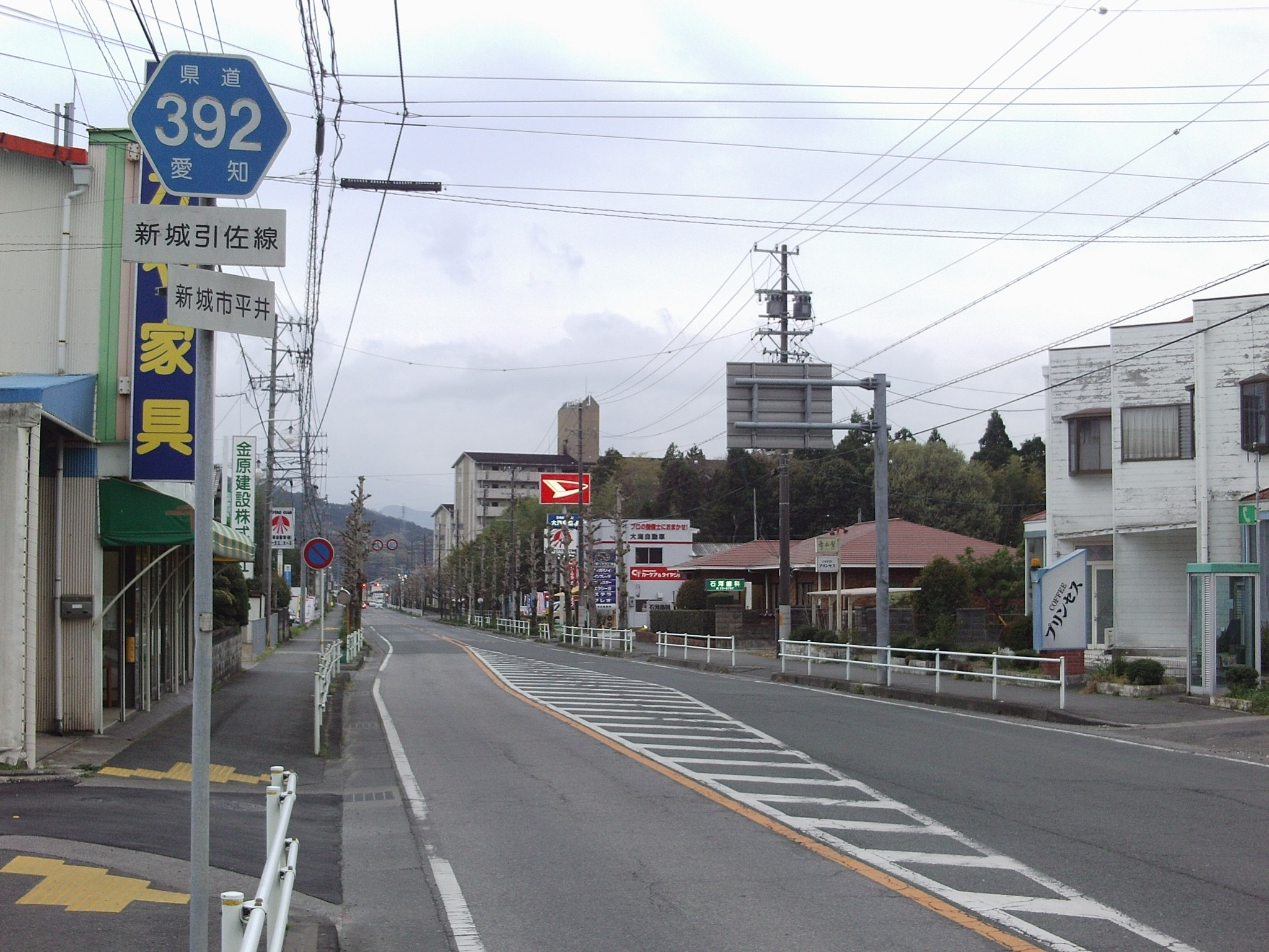 Aichi prefectural road No.392 in Hirai, Shinshiro, Aichi.